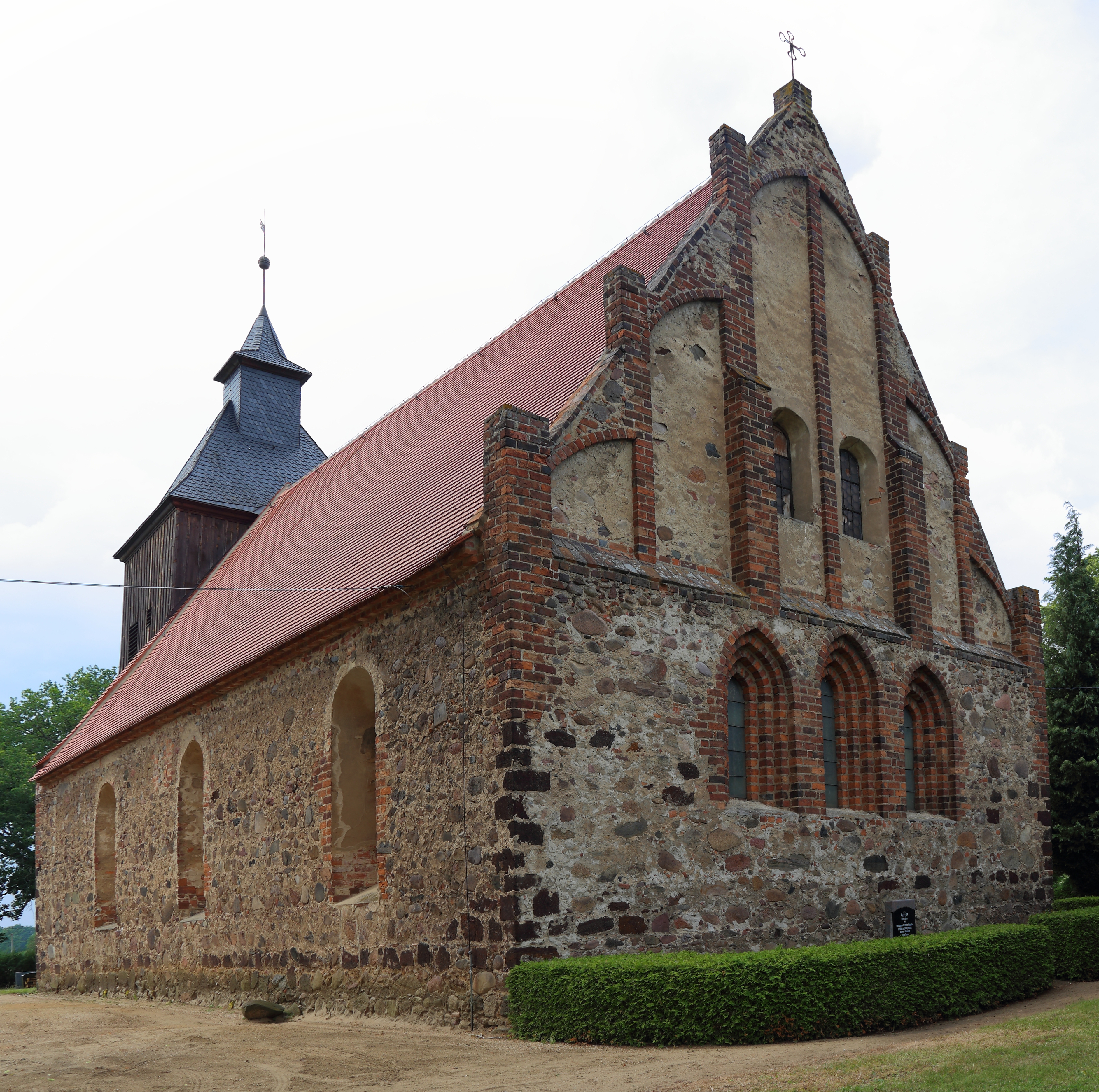 Protestant Village Church (Dorfkirche) of Frankendorf, district of Luckau, Landkreis Dahme-Spreewald, Brandenburg, Germany.